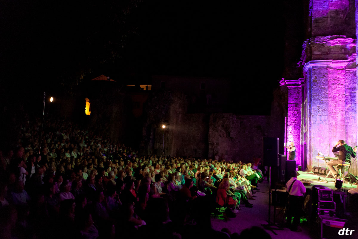 Opening act of the 21st Kastav Cultural Summer